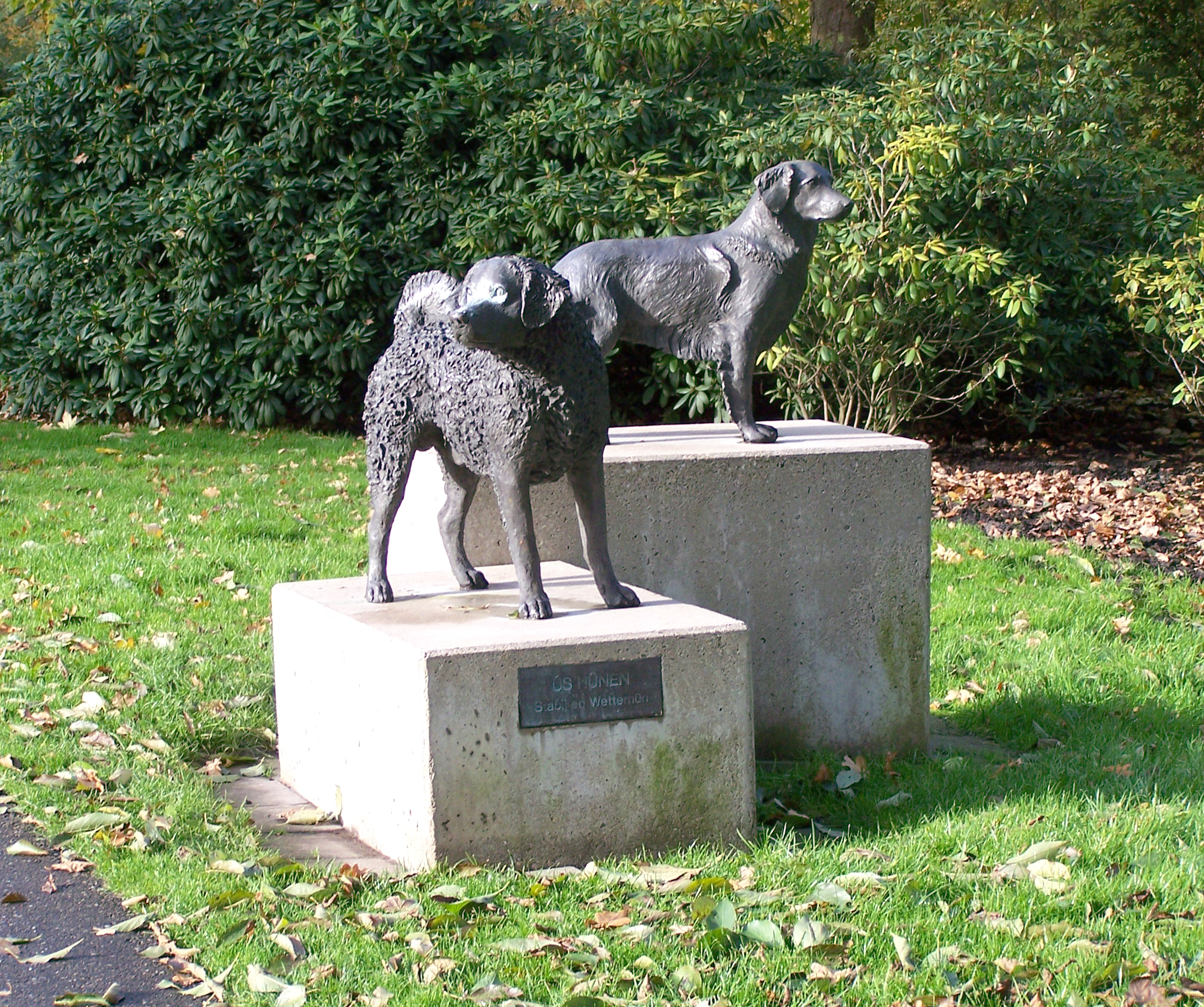 Sculpture "Ús hûnen" (Our dogs), Frisiaan Stabyhoun and Wetterhoun. Made by Gerda van der Bosch in 1987. Placed at the Rengerslaan at the entrance of the park.